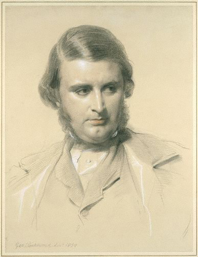 The british Painter Edward Matthew Ward (1816-1879)